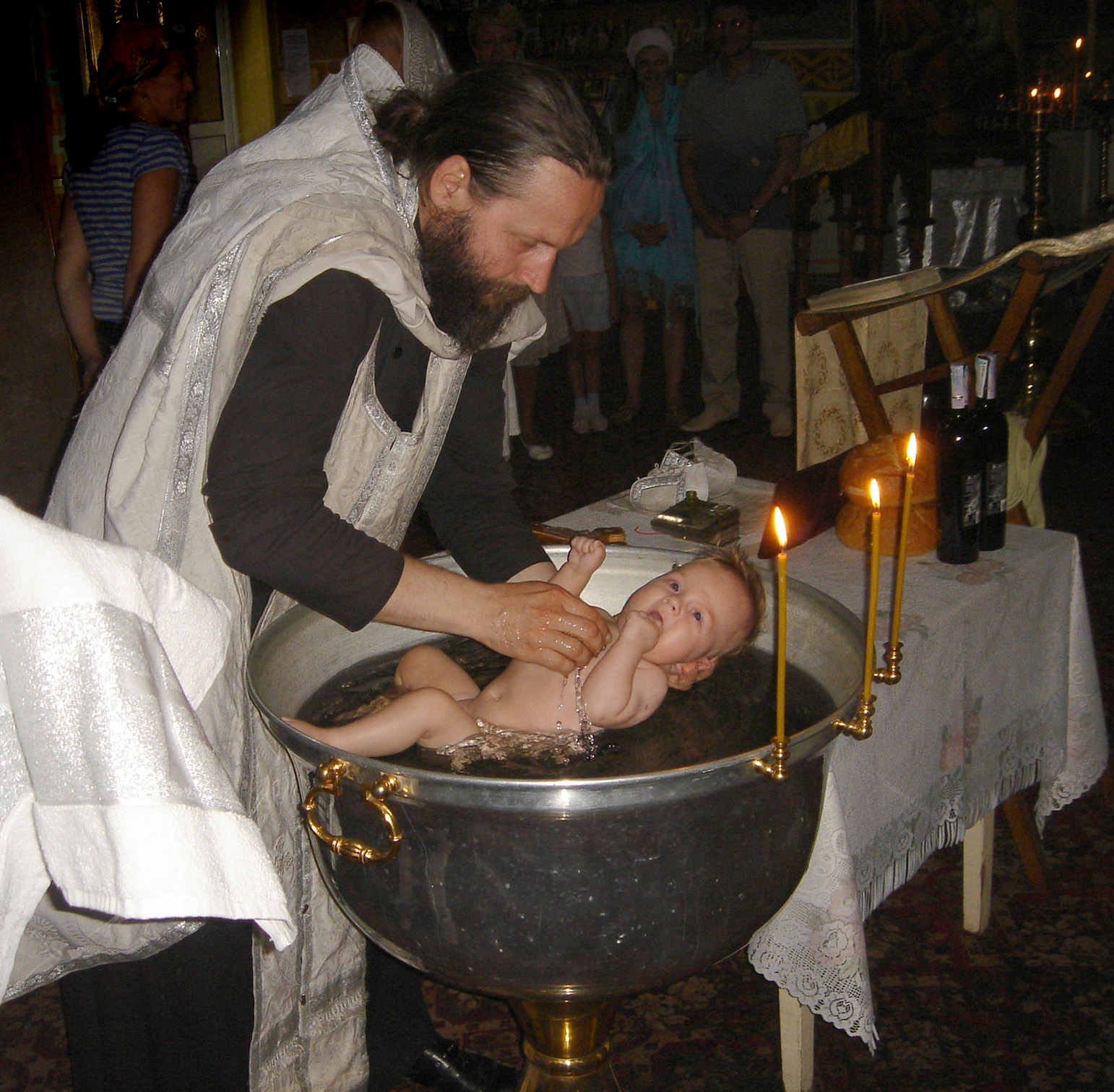 Act of baptizing in Odessa. Courtesy of Alyona and Sergey.